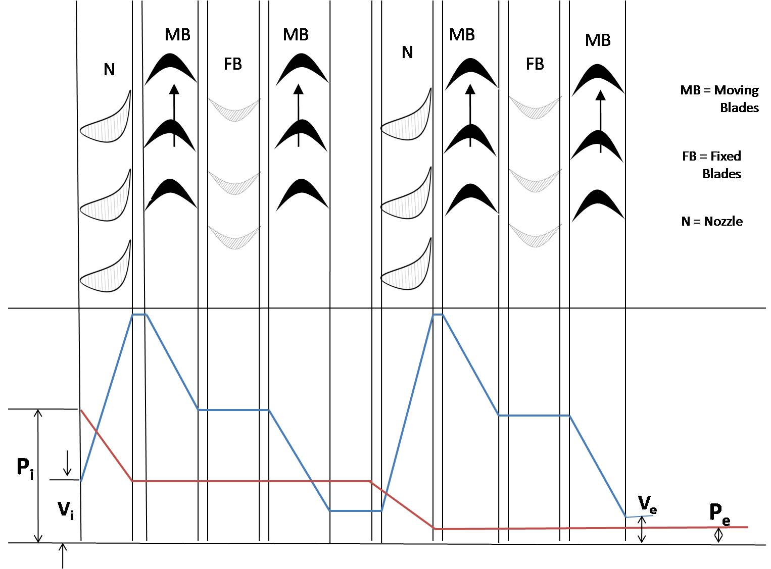 Subik Kumar-Velocity Diagram of Pressure compounded Impulse Turbine